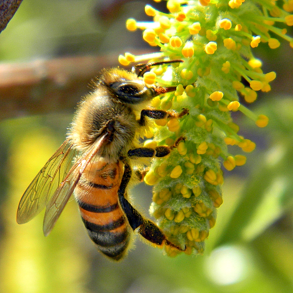 The willows are blooming! Spring approaches! Golden tipped catkins swarmed by industrious golden honey bees in my favorite willow marsh at Juno Dunes Natural Area, Palm Beach County, Florida on Saturday February 5th.